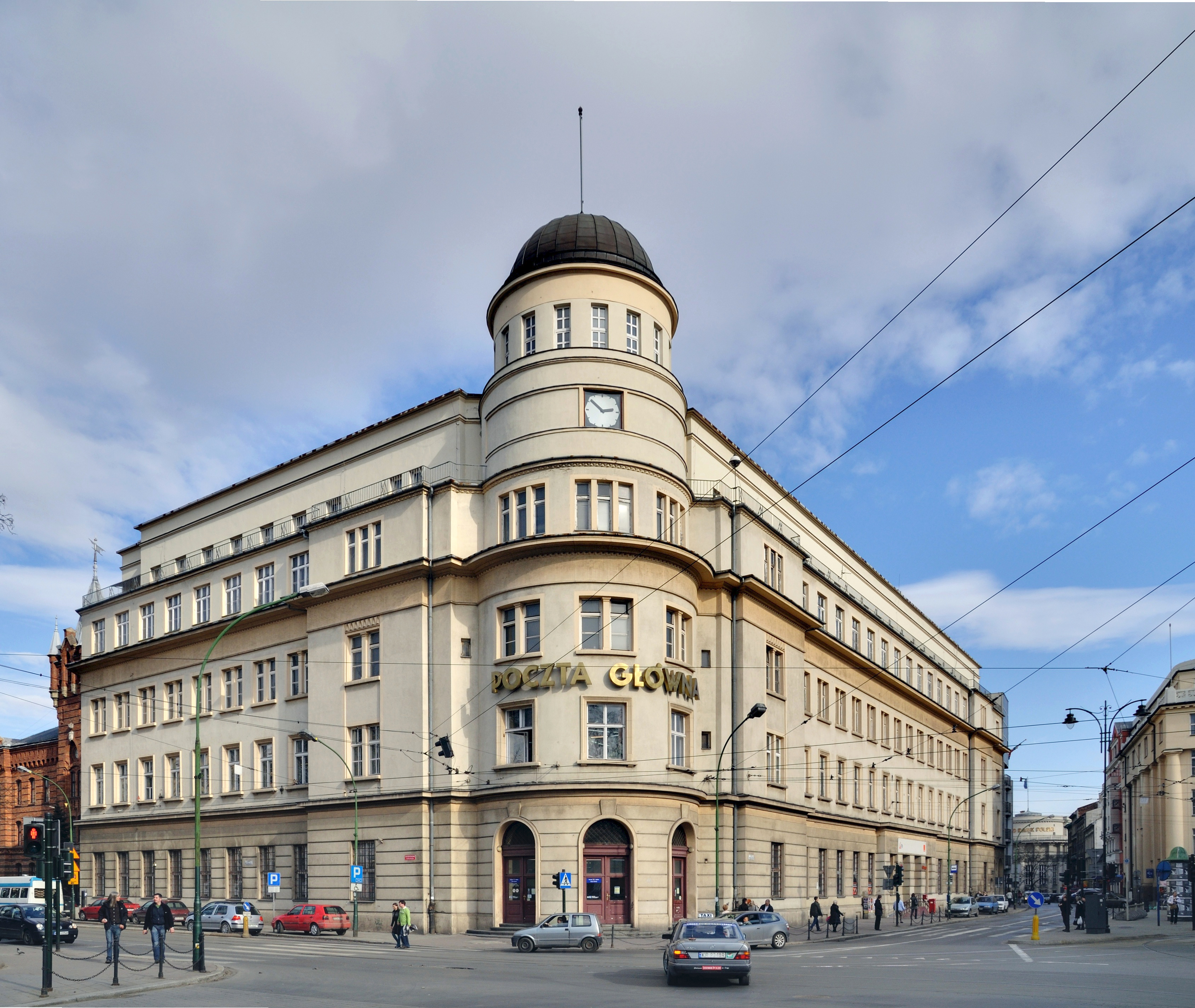 Main Post Office, Cracow